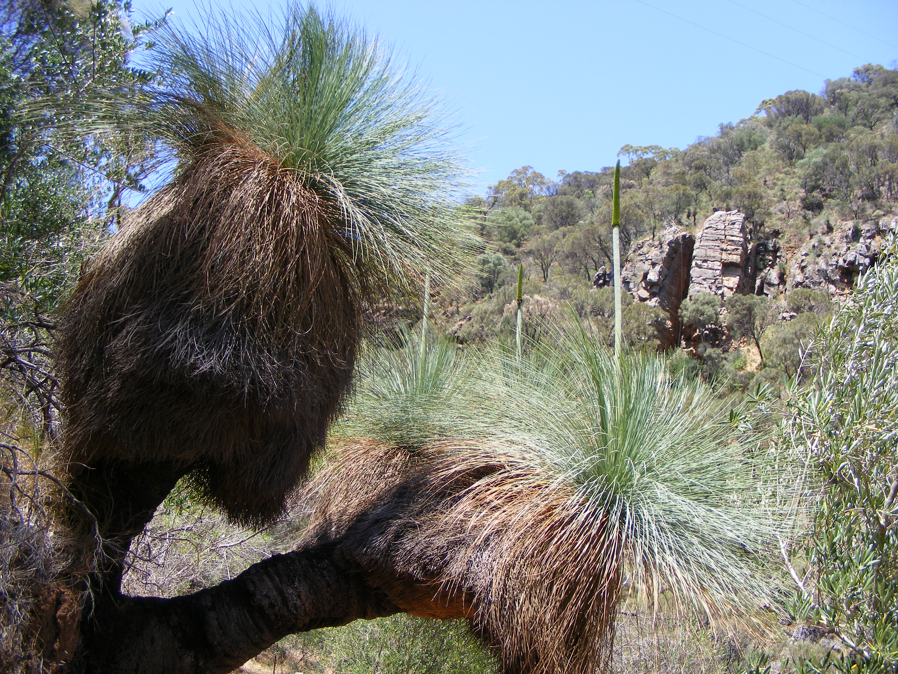 Xanthorrhoea quadrangulata on the trail to Third Falls, Morialta recreation park, Adelaide, South Australia.